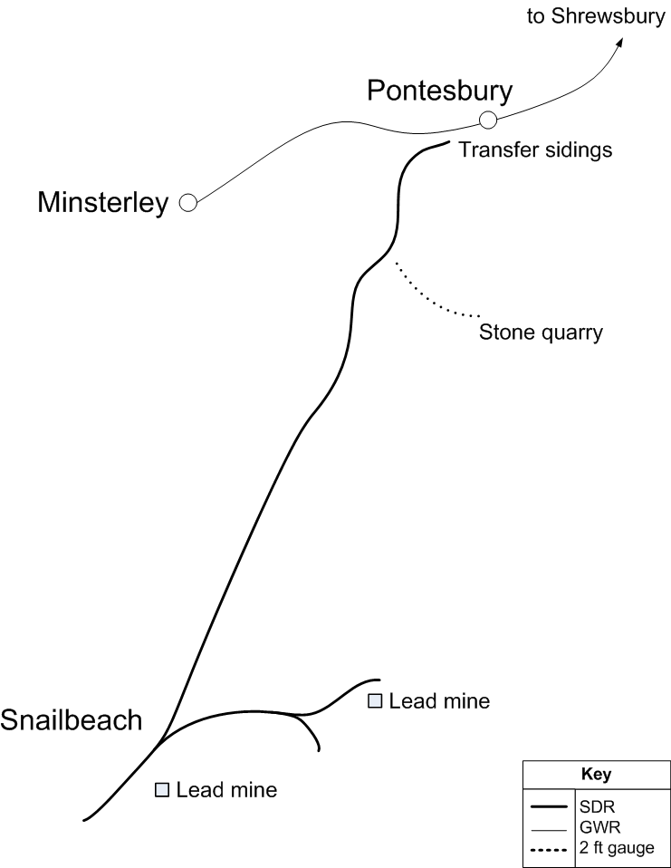 Map of the Snailbeach District Railways Author: Gwernol